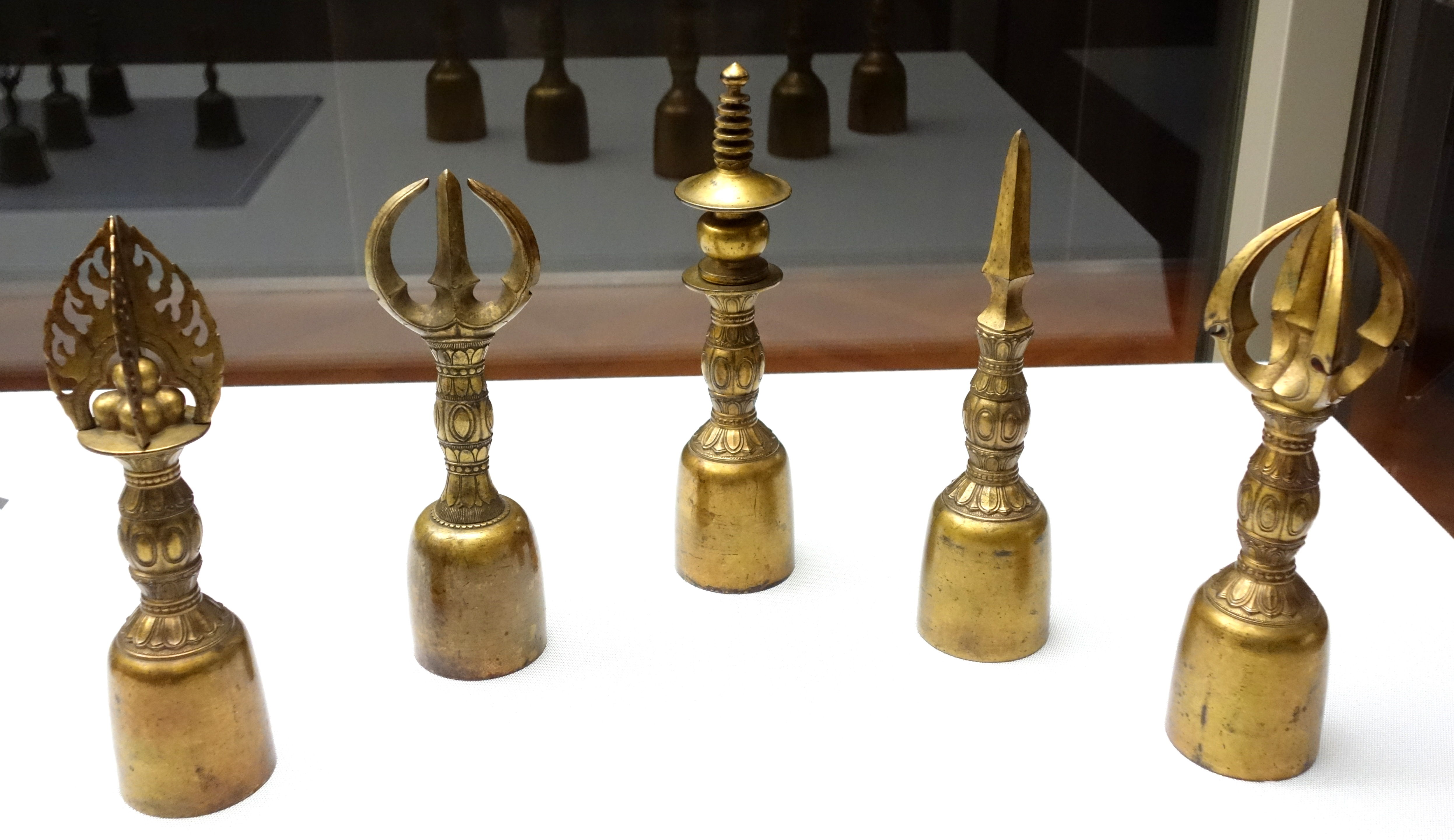 Exhibit in the Tokyo National Museum, Tokyo, Japan. This artwork is old enough so that it is in the public domain.